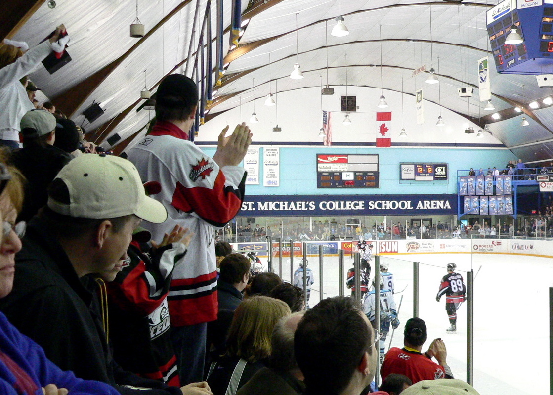 Hershey Centre, ice hockey arena, Game 2 of the first round of the OHL playoffs, the first place Mississauga Ice Dogs took on the home team and eighth place Toronto St. Michael's Majors.